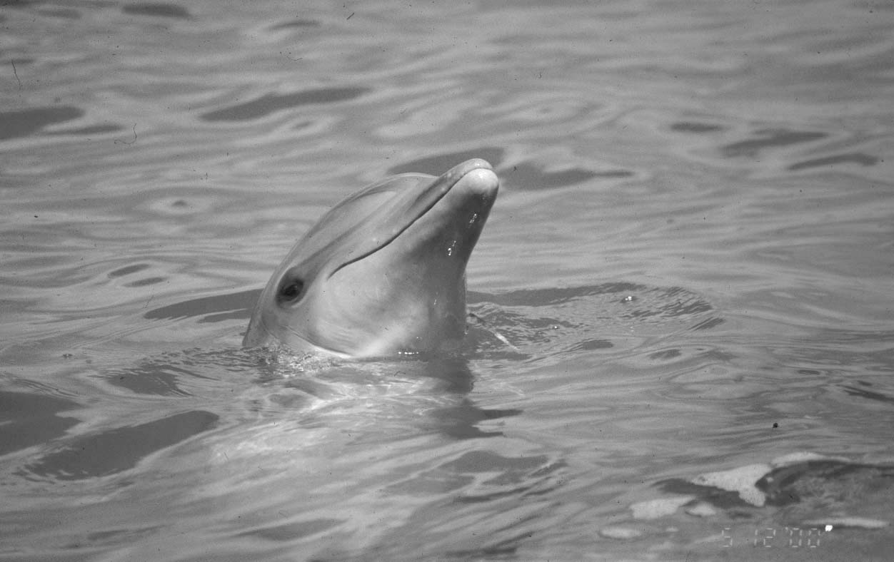 Dolphin- Bottlenose, NPSPhoto, 2001 (2)